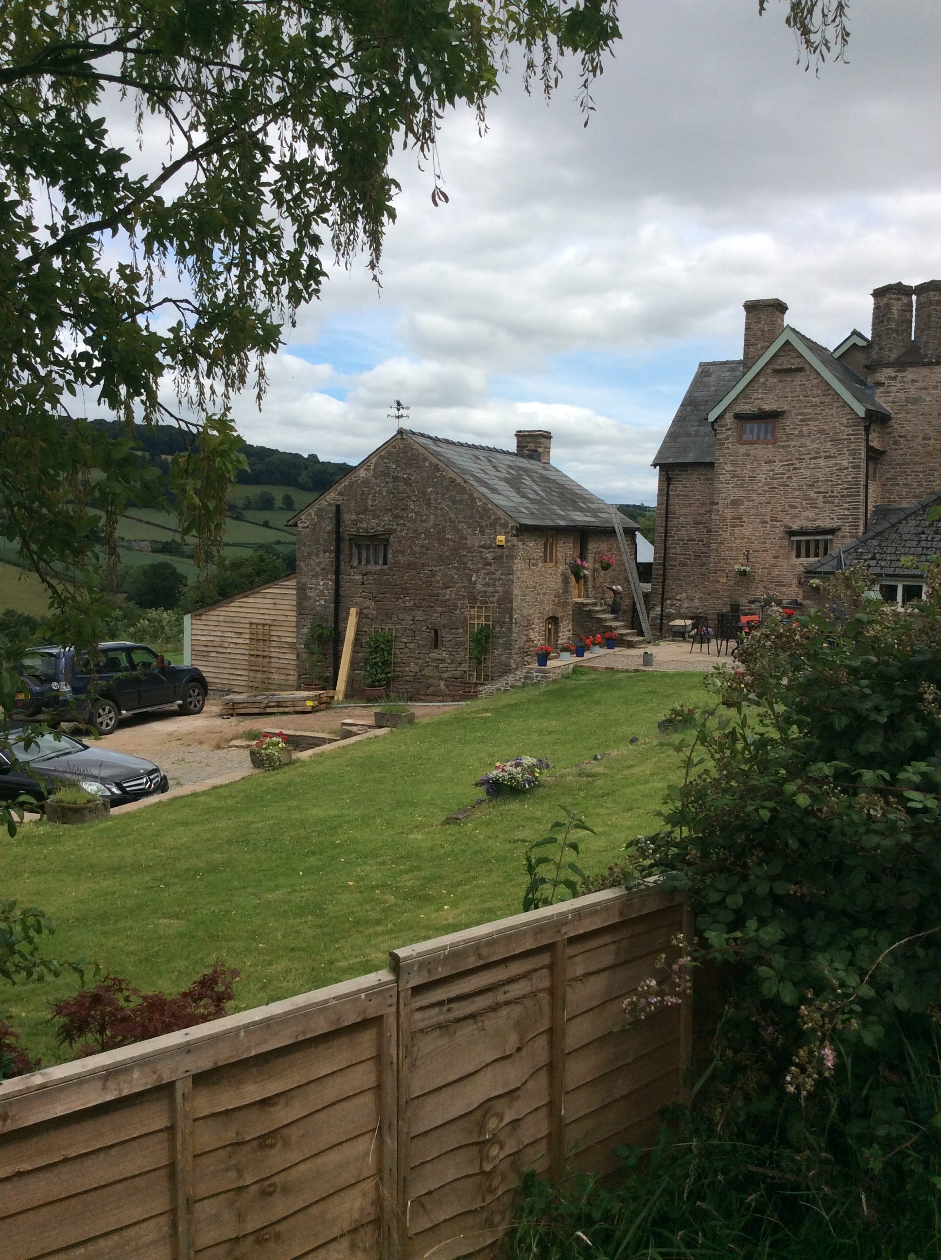 Upper Duffryn House Dairy, Grosmont, Monmouthshire